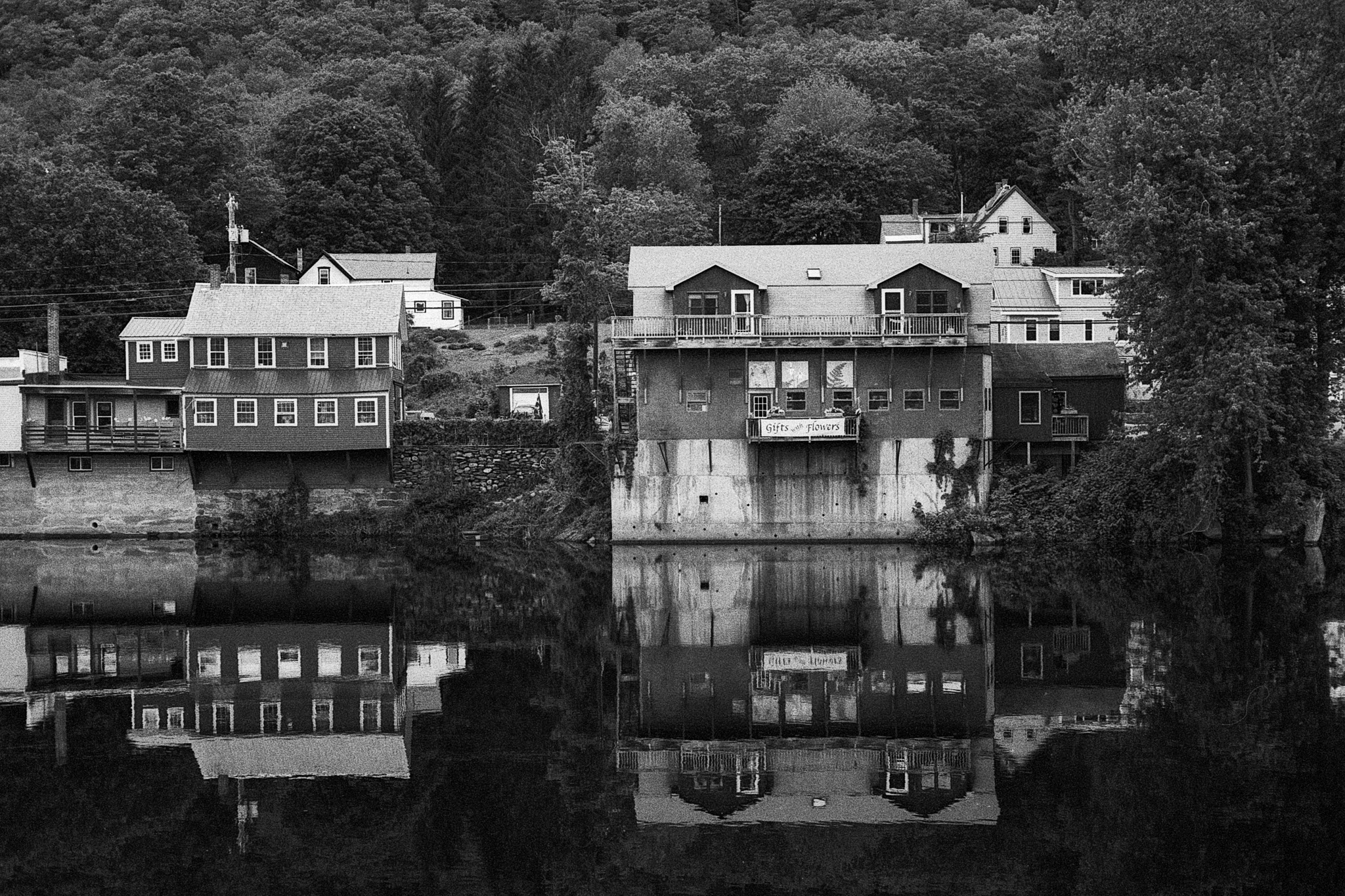 Konica Hexar RF Canon 50mm F1.4 LTM Ilford HP5+ Caffenol